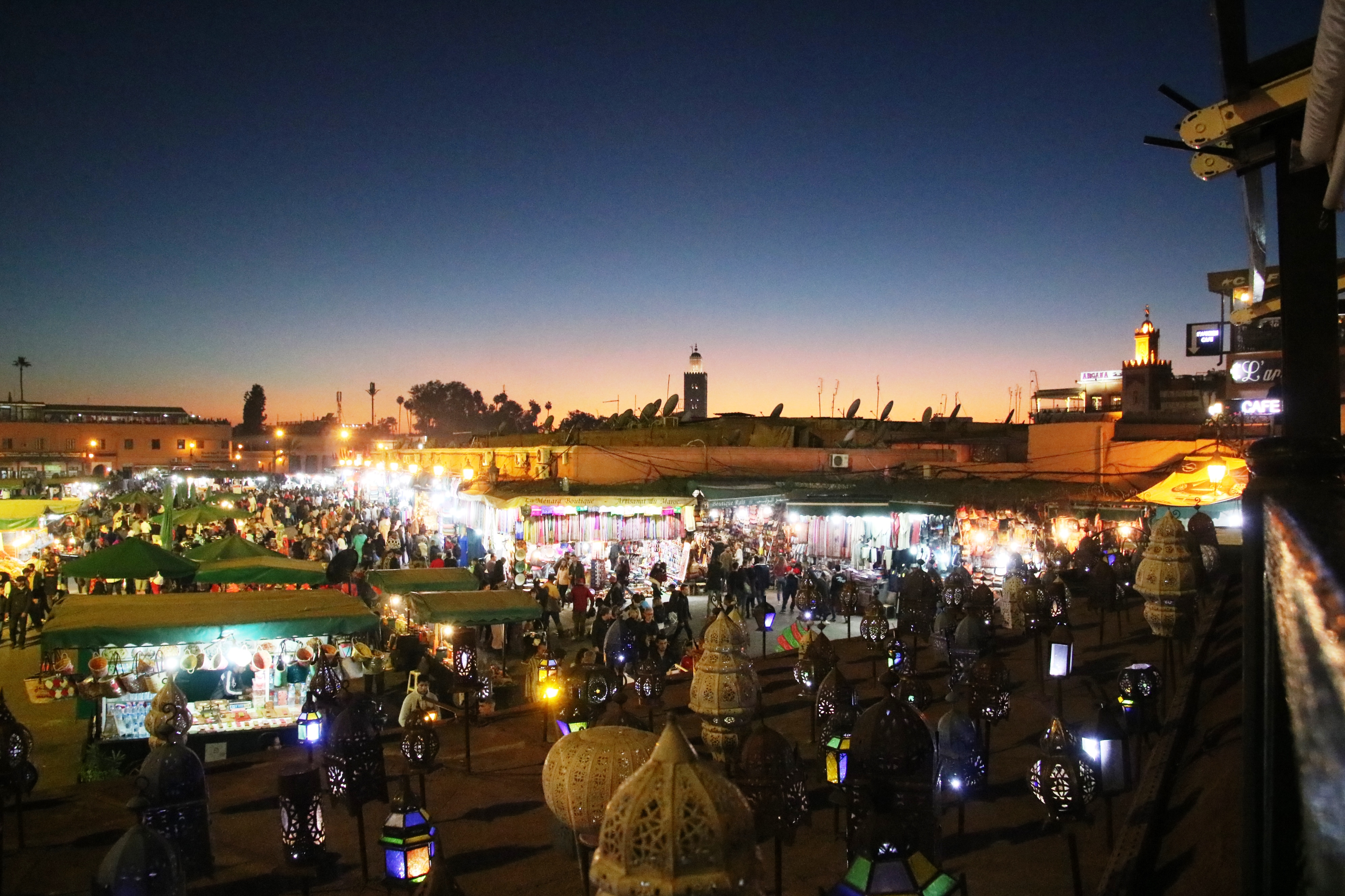 Central square in Marrakesh